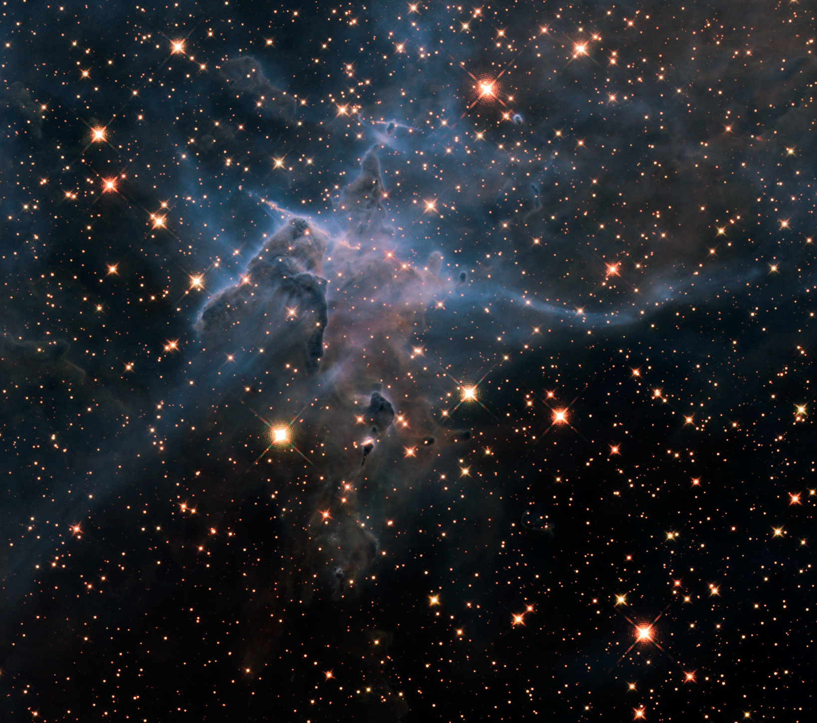 This is a NASA Hubble Space Telescope near-infrared-light image of a three-light-year-tall pillar of gas and dust that is being eaten away by the brilliant light from nearby stars in the tempestuous stellar nursery called the Carina Nebula, located 7,500 light-years away in the southern constellation Carina. The image marks the 20th anniversary of Hubble's launch and deployment into an orbit around Earth. The image reveals a plethora of stars behind the gaseous veil of the nebula's wall of hydrogen, laced with dust. The foreground pillar becomes semi-transparent because infrared light from background stars penetrates through much of the dust. A few stars inside the pillar also become visible. The false colors are assigned to three different infrared wavelength ranges.